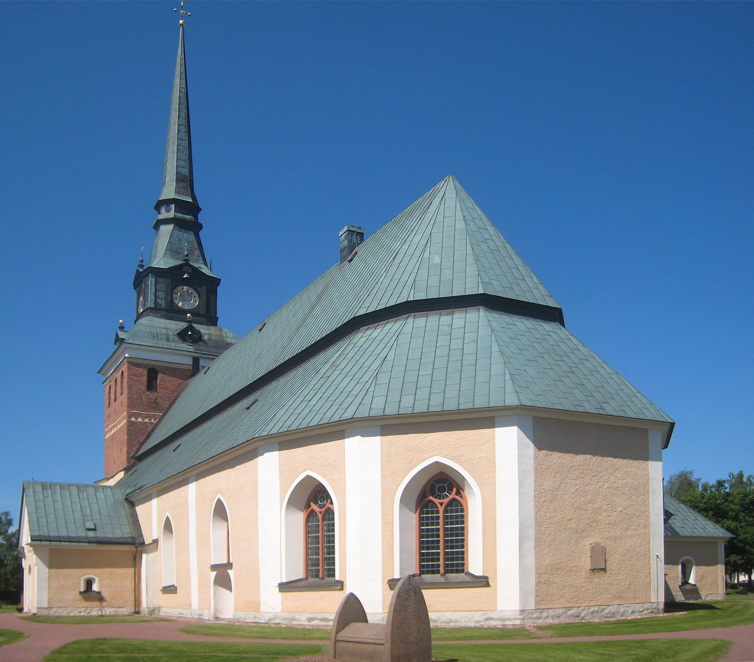 Mora Kyrka